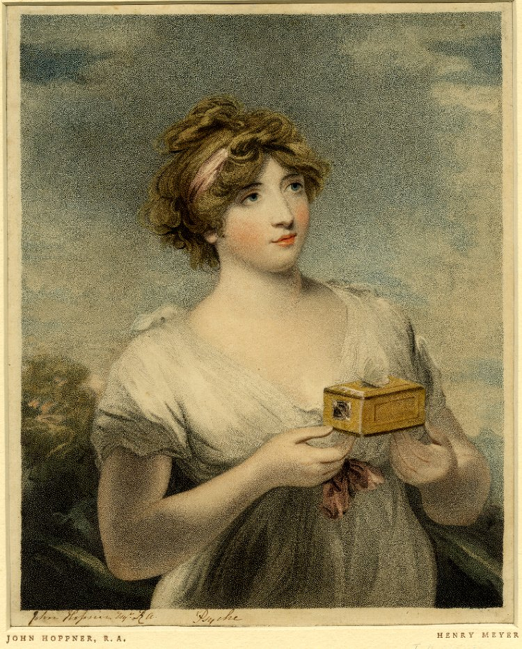 Psyche, portrait of Sophia Askell Bucknall (1784–1859), daughter of William Bucknall (earlier William Grimston). She was originally Sophia Askell Grimston, and married Berkeley Paget, becoming Sophia Askell Paget.